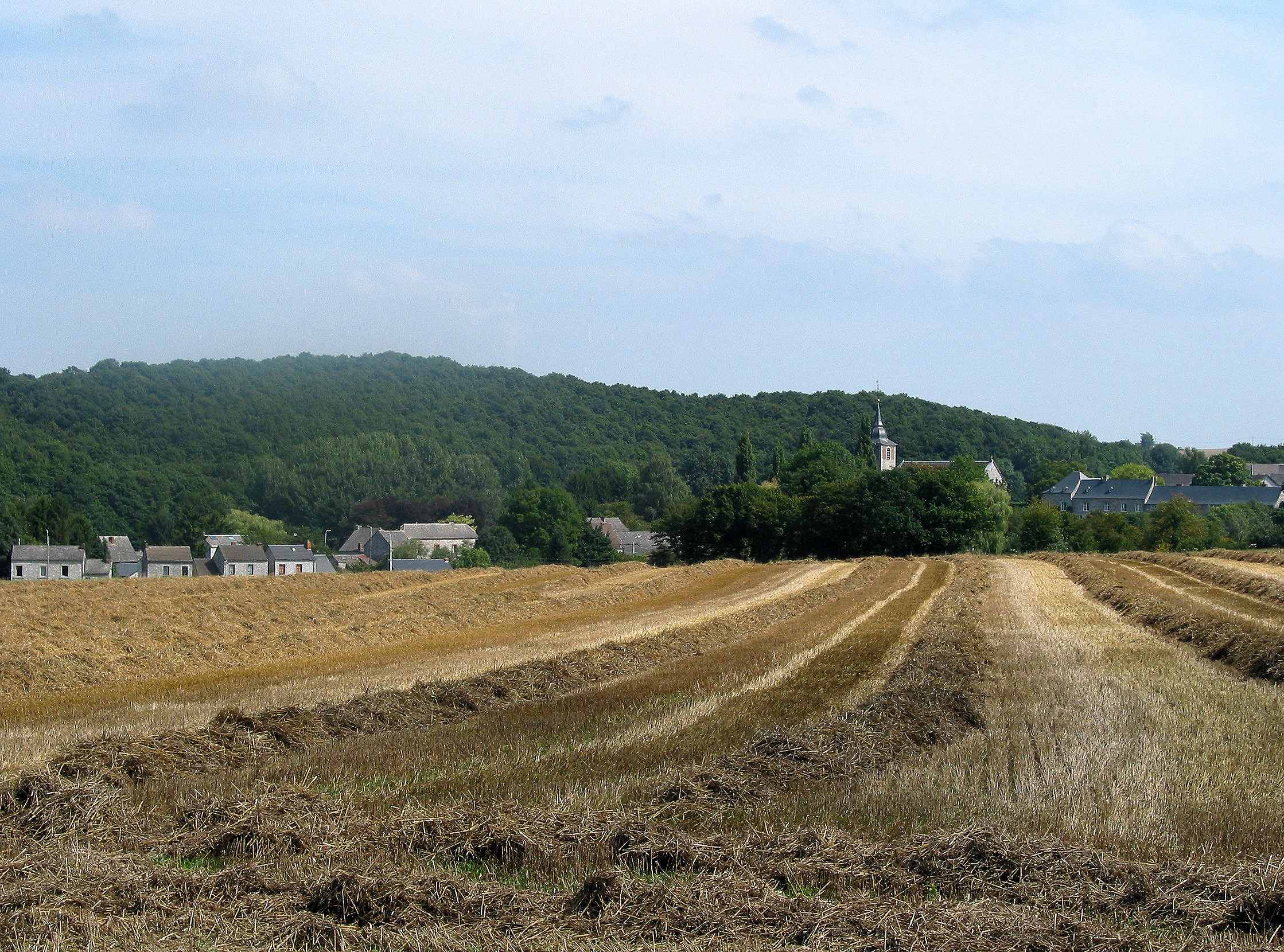 Thon-Samson (Belgium), the old village during in the harvest time.